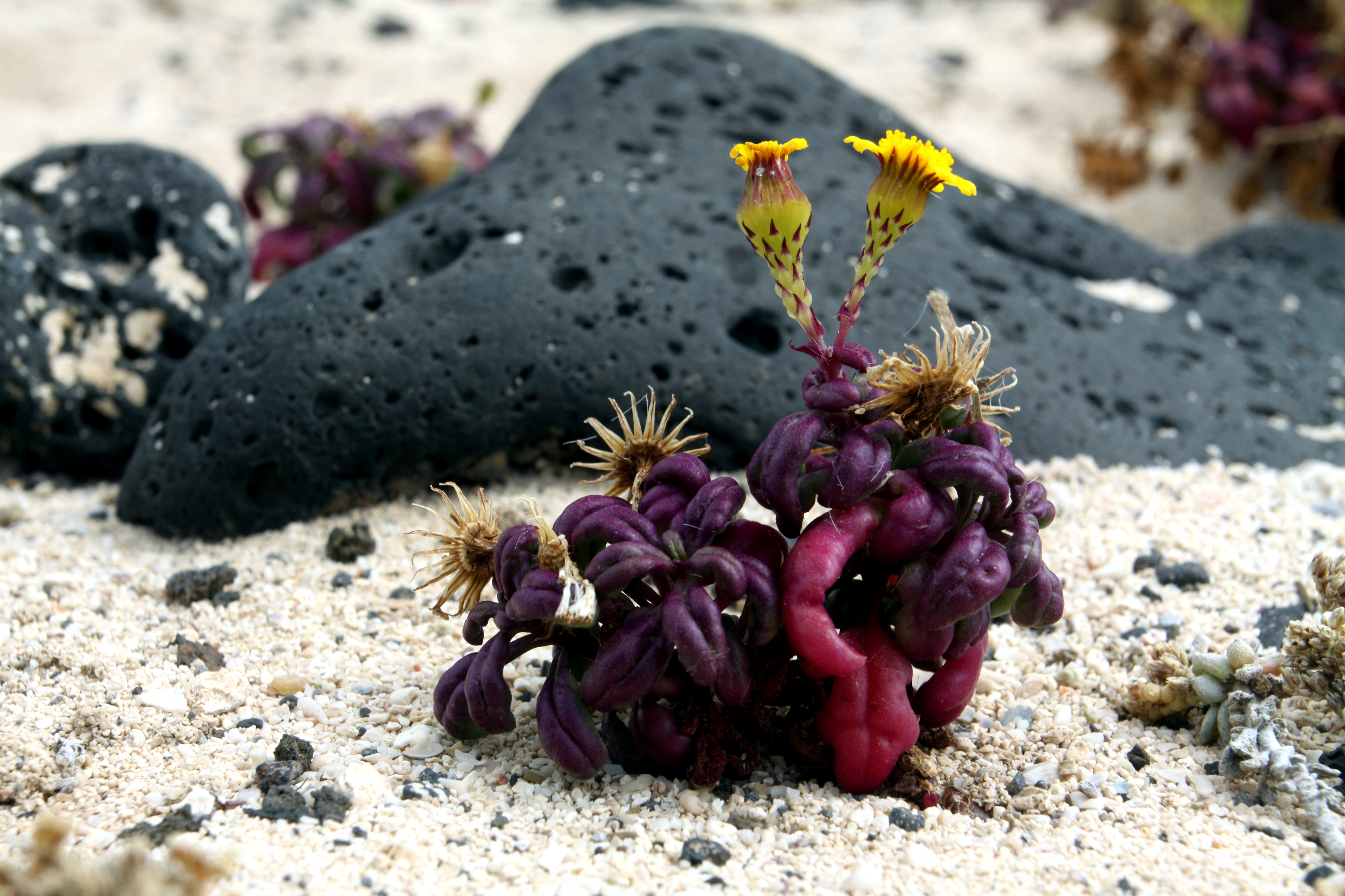 Senecio leucanthemifolius on the beach close to Órzola on Lanzarote, The Canary Islands, Spain